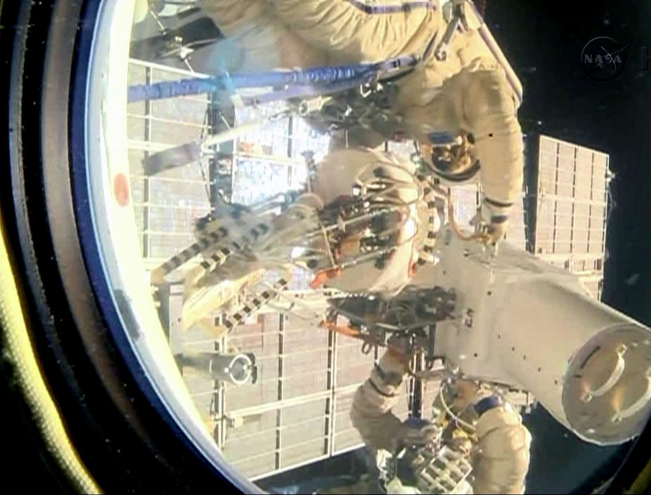 Spacewalkers Oleg Kotov and Sergey Ryazanskiy remove the high resolution camera they installed earlier during Friday's spacewalk.